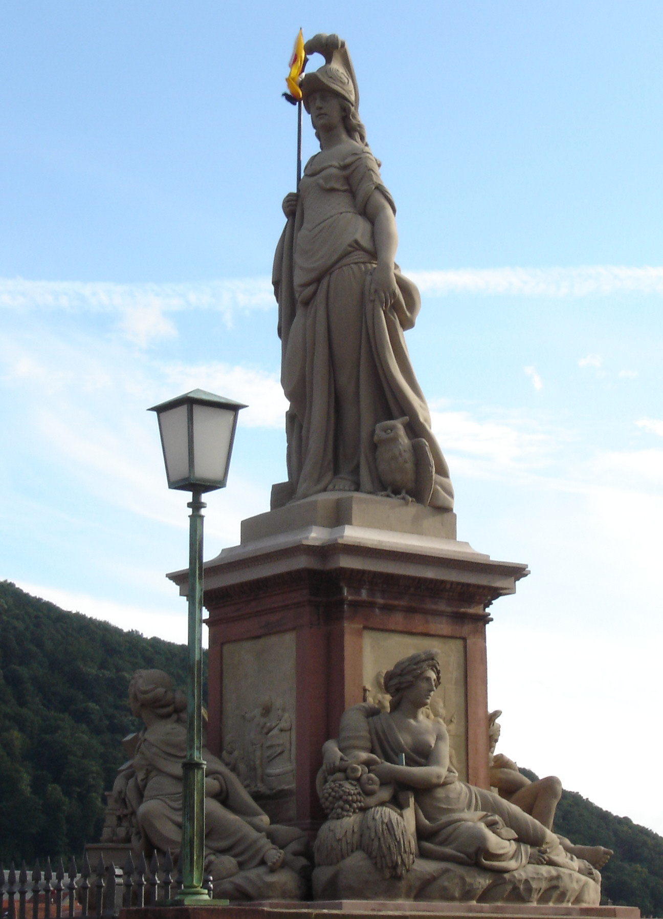 Statue of Minerva on the "Old Bridge" (Alte Brücke) of Heidelberg, Germany. Conrad Linck, 1790.